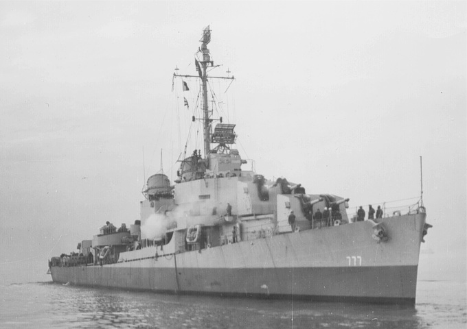 The U.S. Navy destroyer USS Zellars (DD-777) off the Puget Sound Naval Shipyard, Washington (USA), on 23 January 1945.